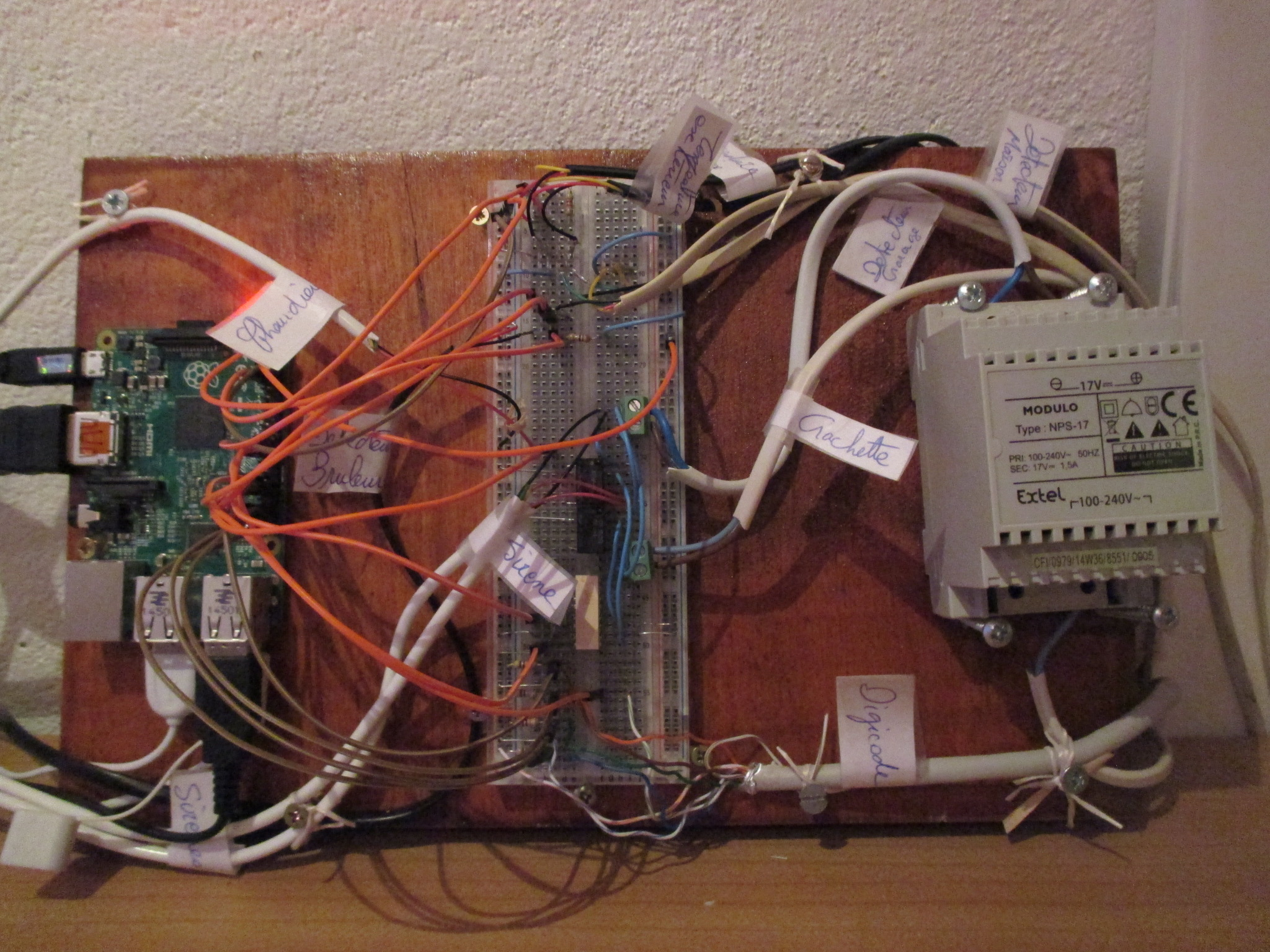 Domotique Habilis 003